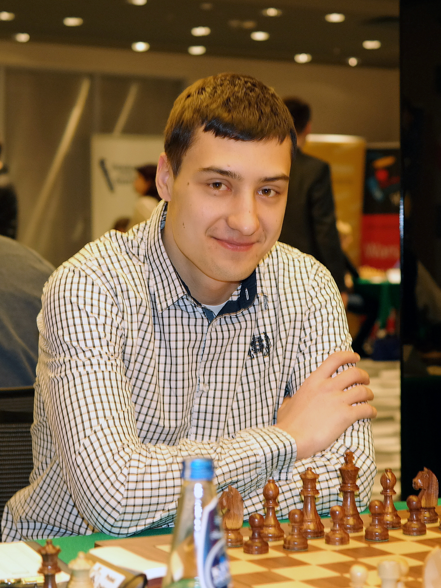 GM Dariusz Świercz, Polish Chess Championship, Warsaw 2014